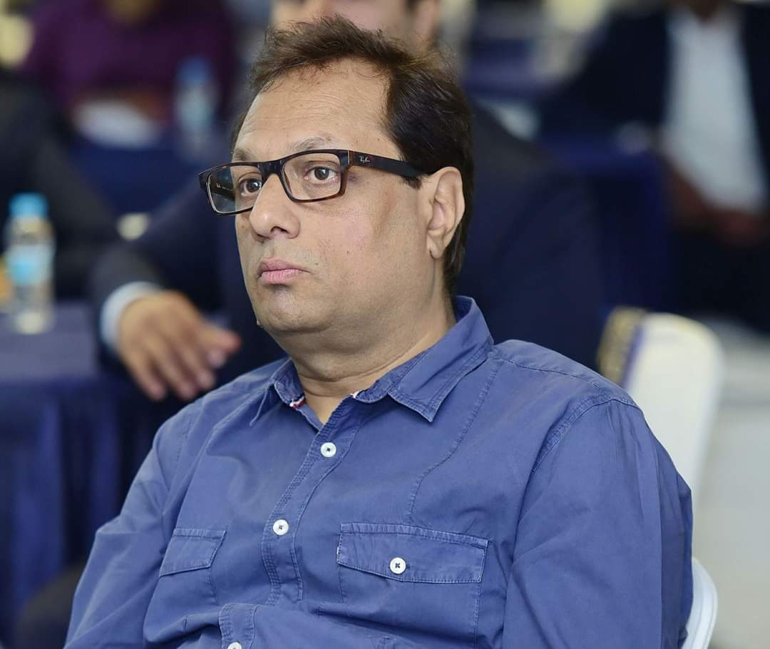 This photo represents Dr. Pramod Paliwal attending a conference.